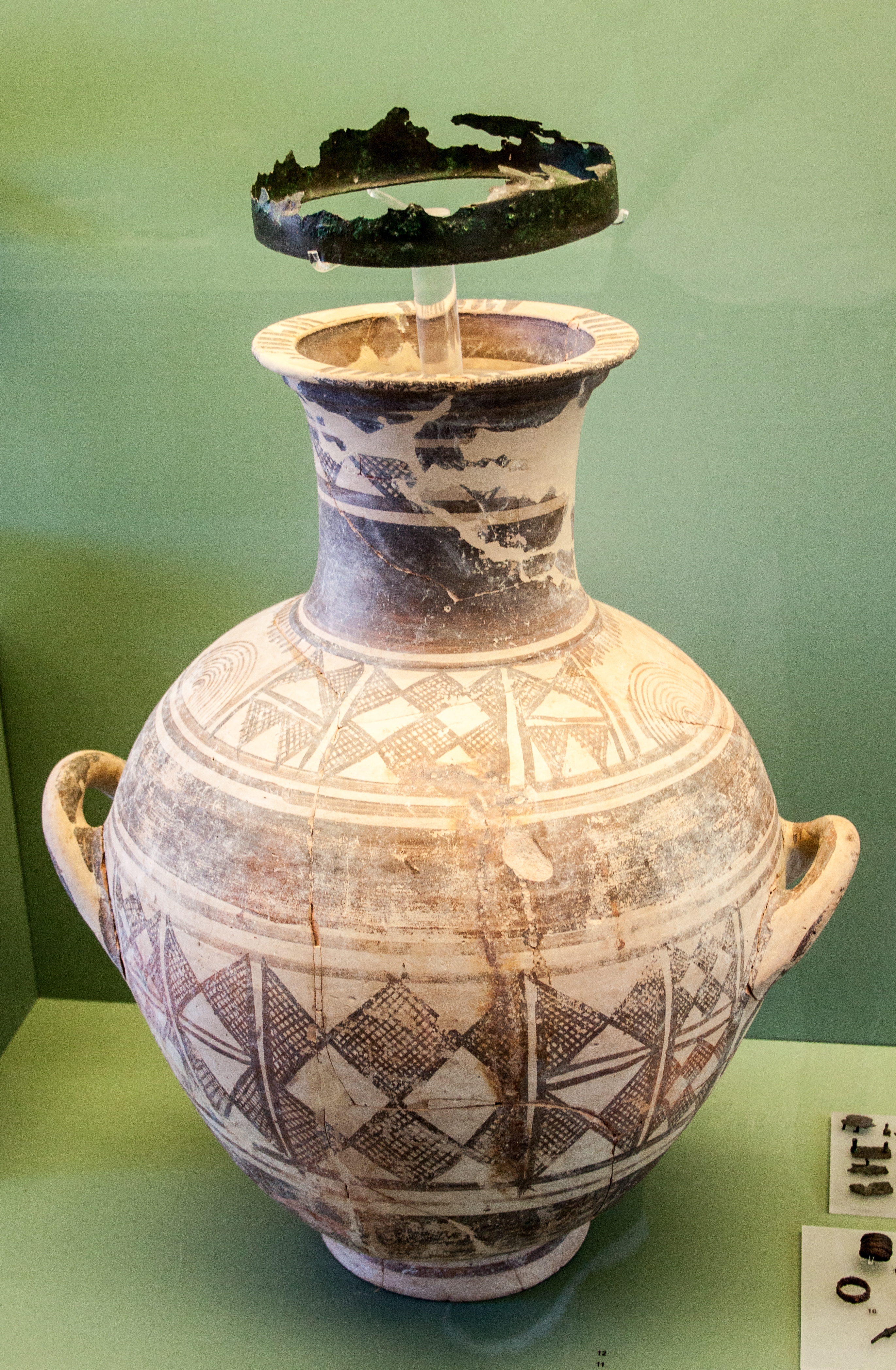 Cinerary amphora with bronze Cypriot bowl used as a lid